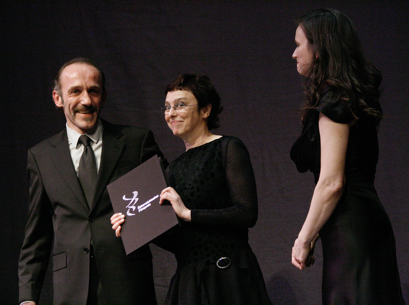 Karina Ressler (Best Film Editing) with Barbara Albert and Karl Markovics at the Austrian Film Awards 2011 at the Odeon theater in Vienna.